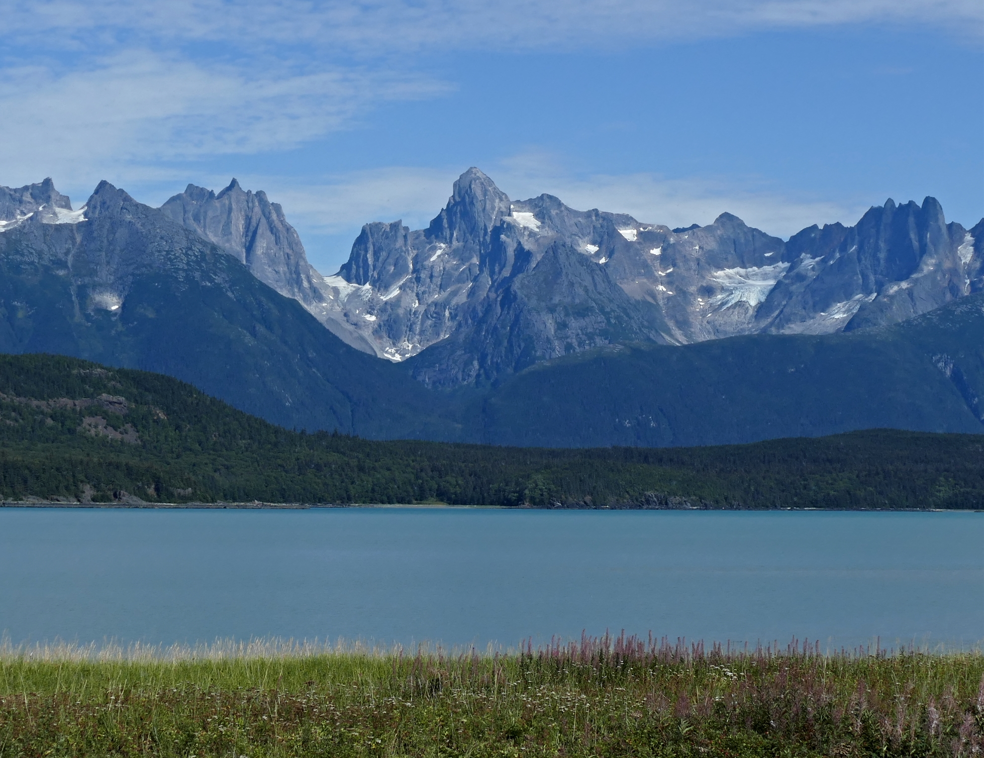 Sinclair Mountain across Lynn Canal